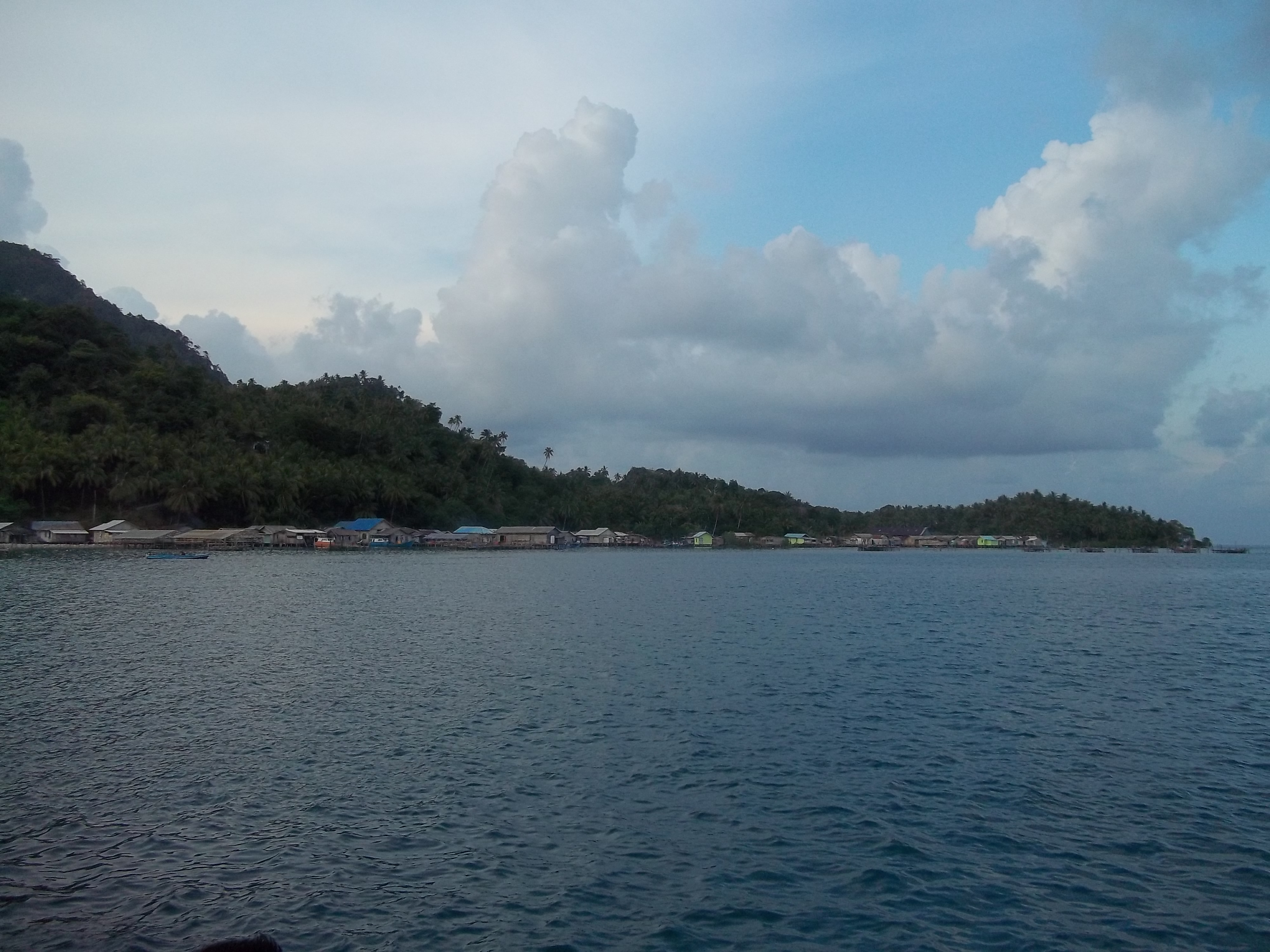 Scenery at Serasan Harbor, Natuna Islands, Riau Islands Province, Indonesia